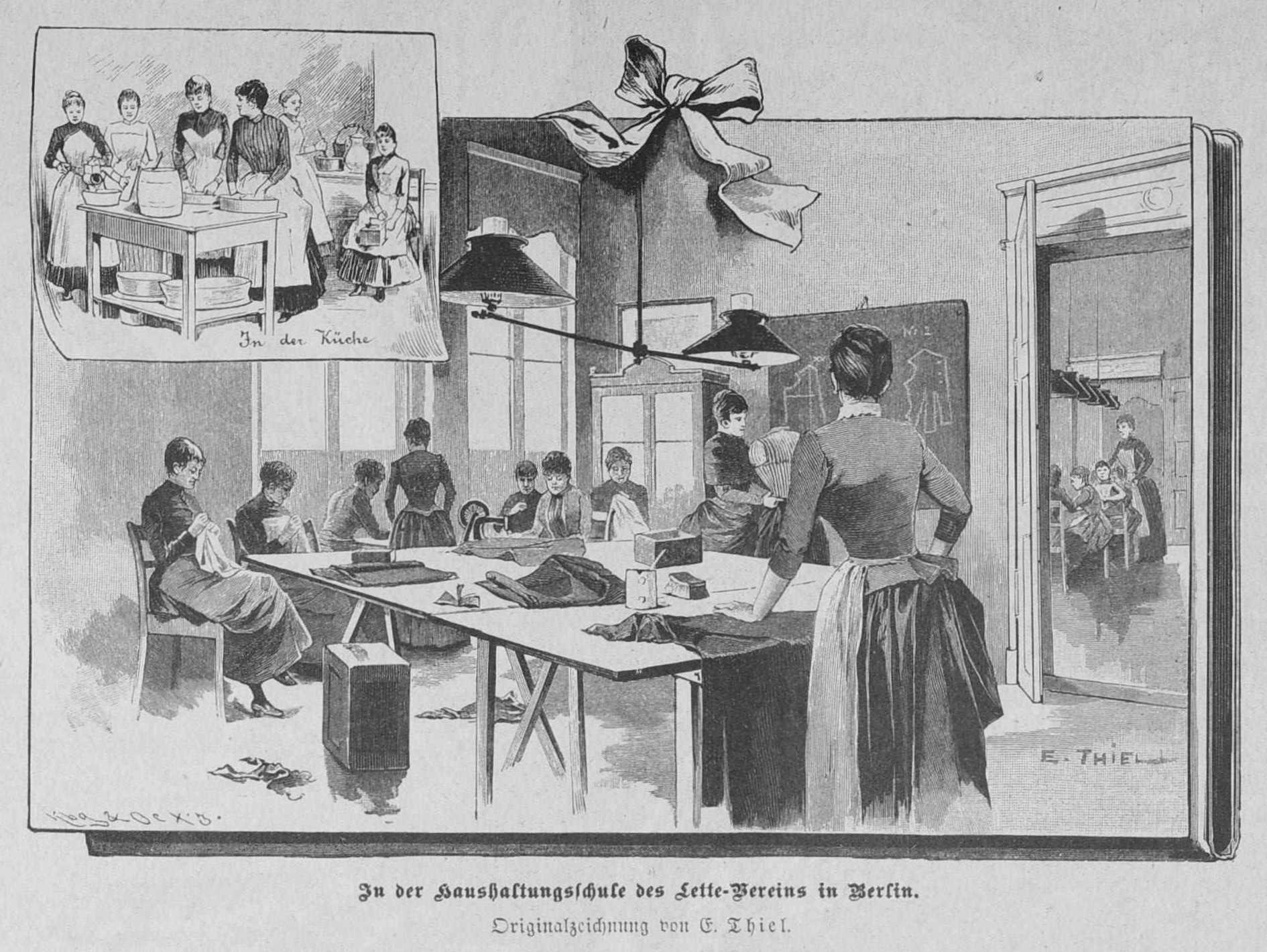 caption: "In der Haushaltungsschule des Lette-Vereins in Berlin.Originalzeichnung von E. Thiel."